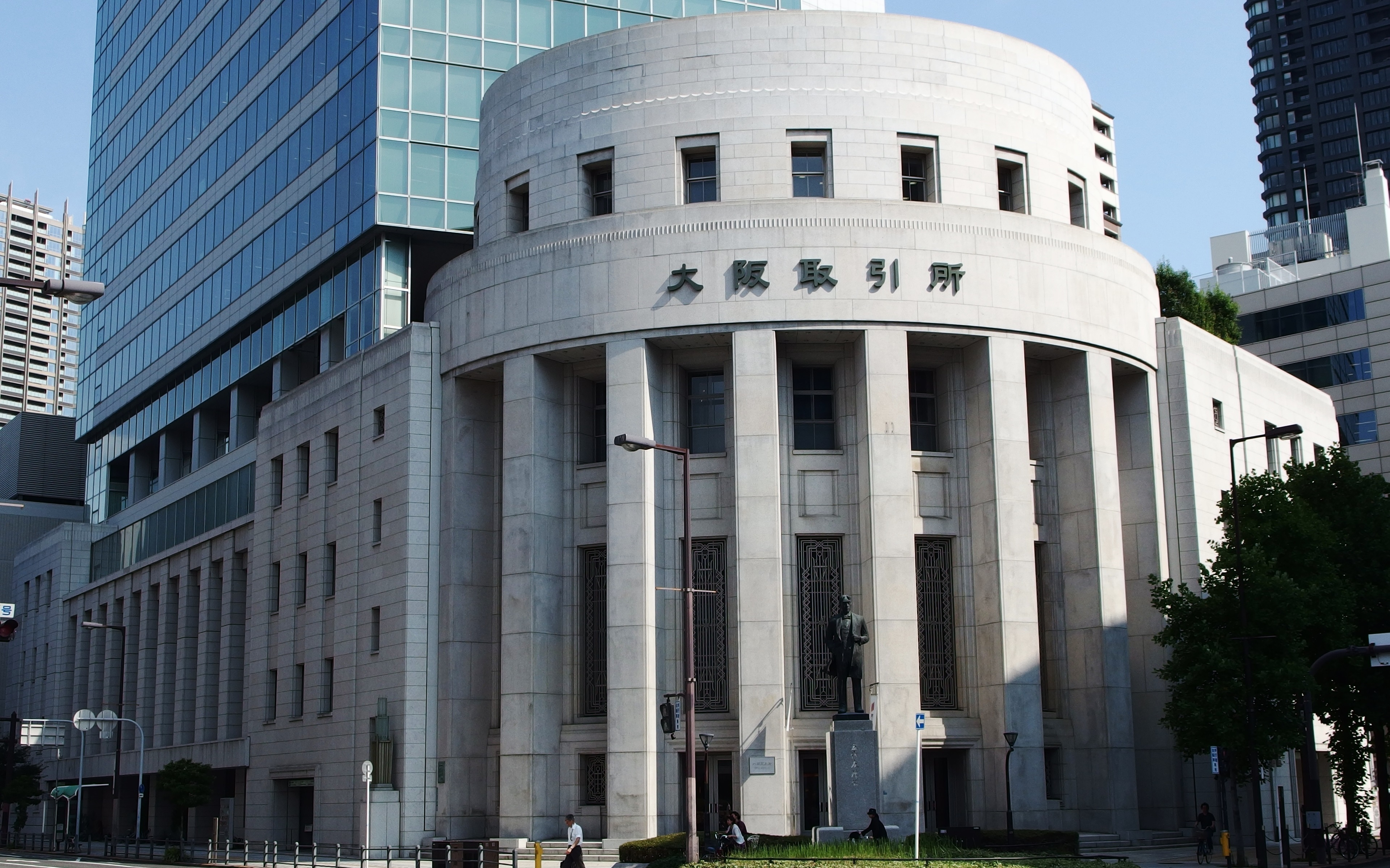 Osaka Exchange, Osaka, Osaka Prefecture